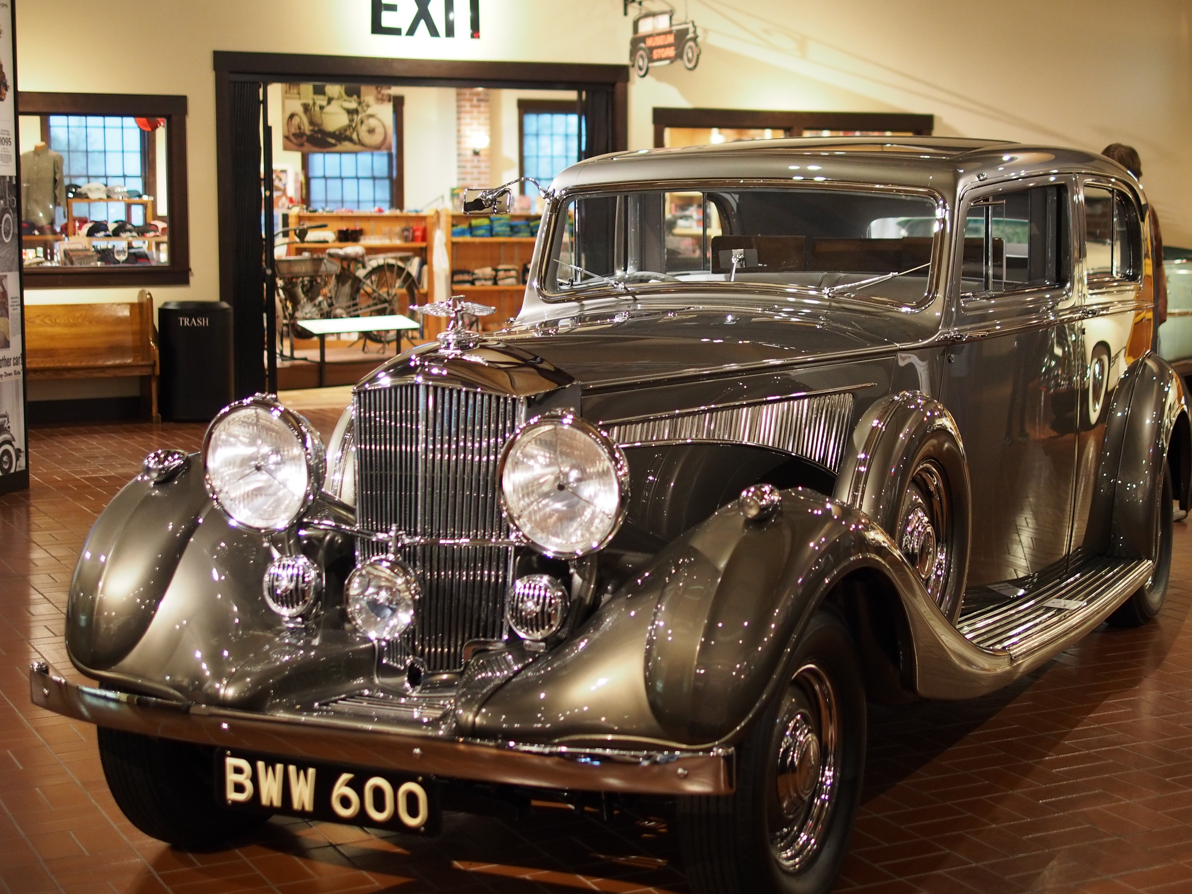 1937 Railton Rippon Special Limousine, EnglandGilmore Car Museum, Heritage Center